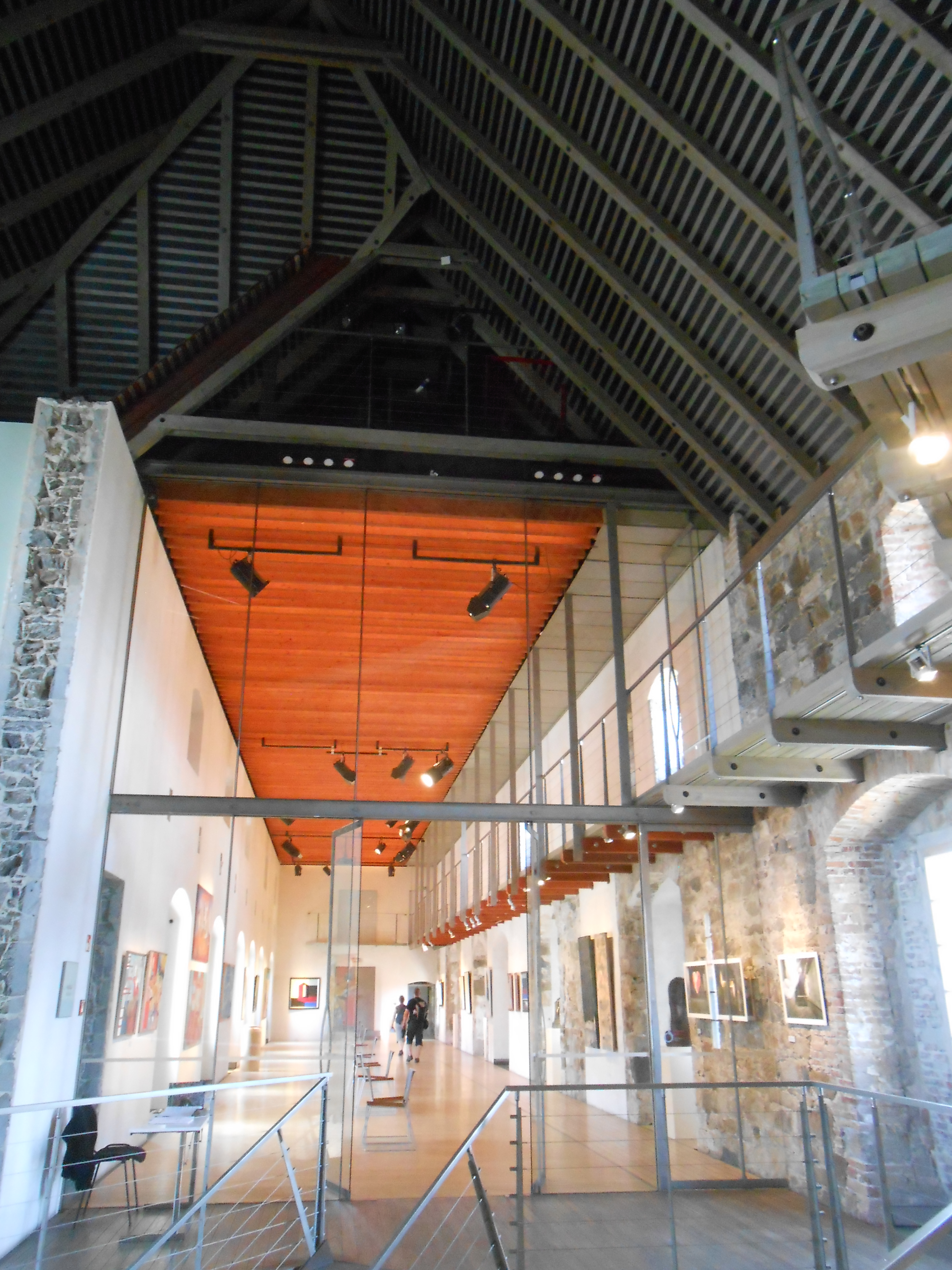 Interior of Ljubljana city, Ljubljana, Slovenia